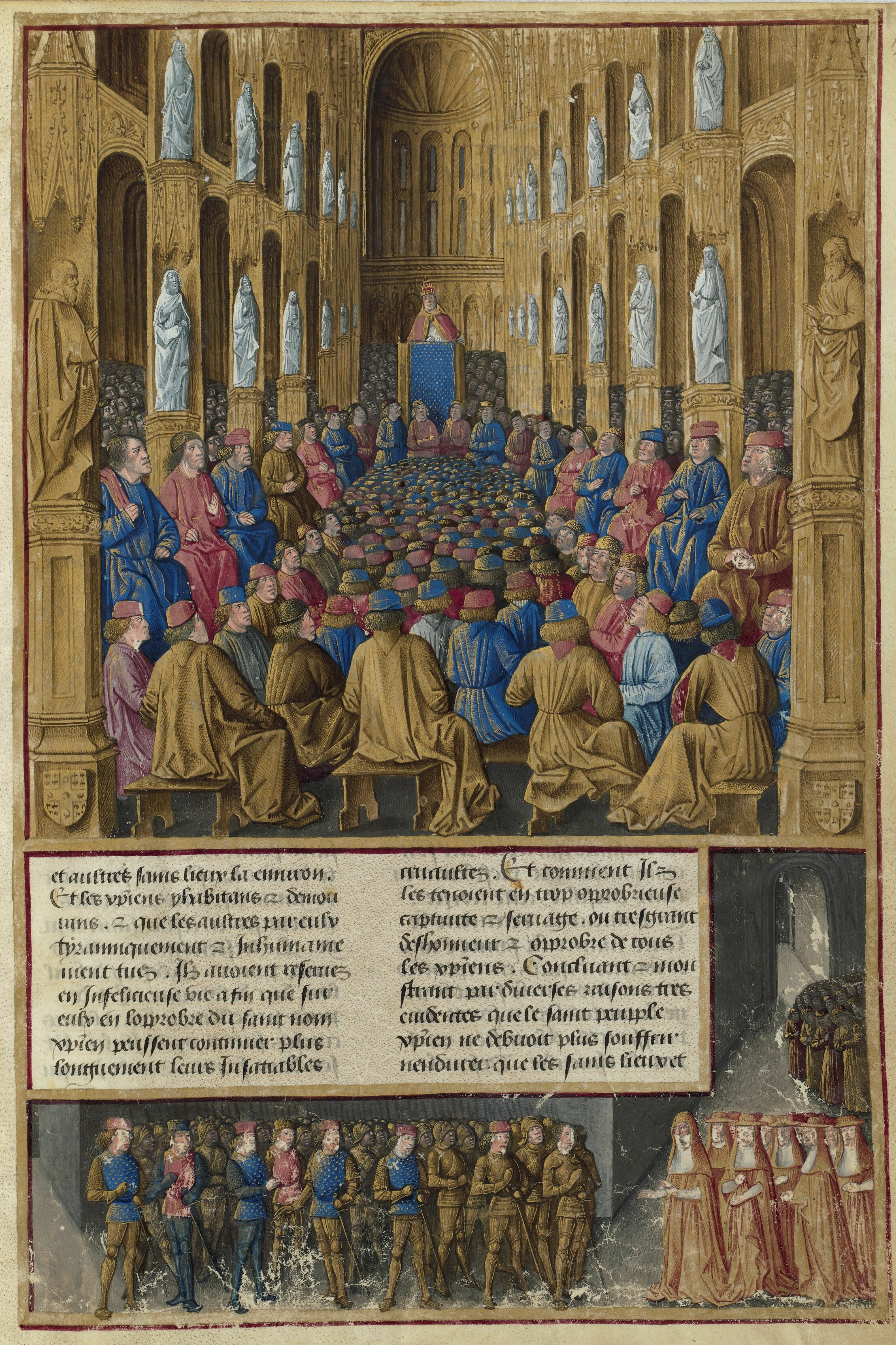 Miniature: Pope Urban II preaching at the Council of Clermont. Sébastien Mamerot, Les passages d'outremer